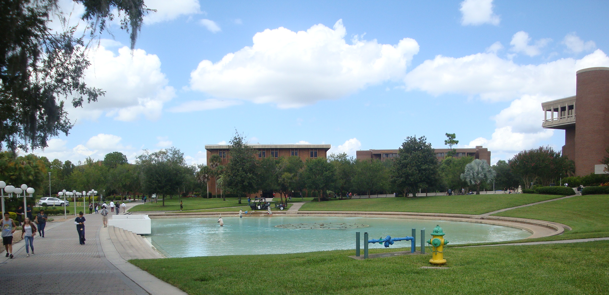 The UCF Reflecting Pond during the day. Side view. Fountains turned off. Some figures appear to be cleaning the pool, while students newly returned to campus walk alongside the pool.